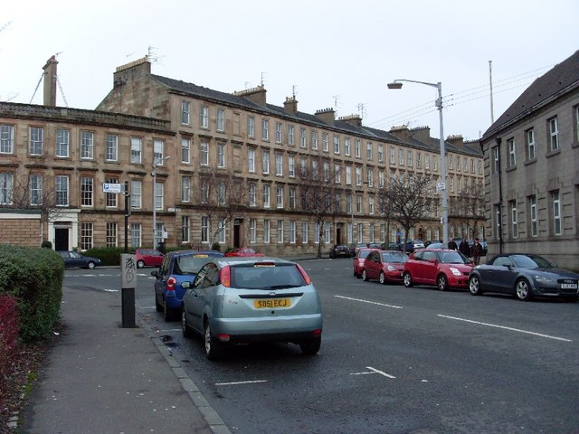 Minerva Street at St Vincent Crescent Plush housing in the Finnieston area of Glasgow.